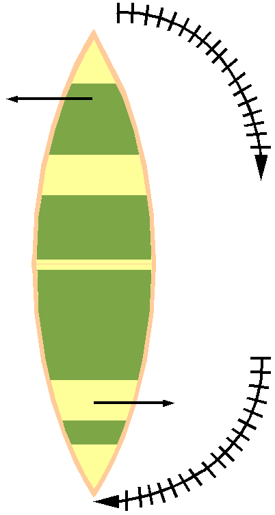 Diagram showing how to execute a half sweep in a canoe.